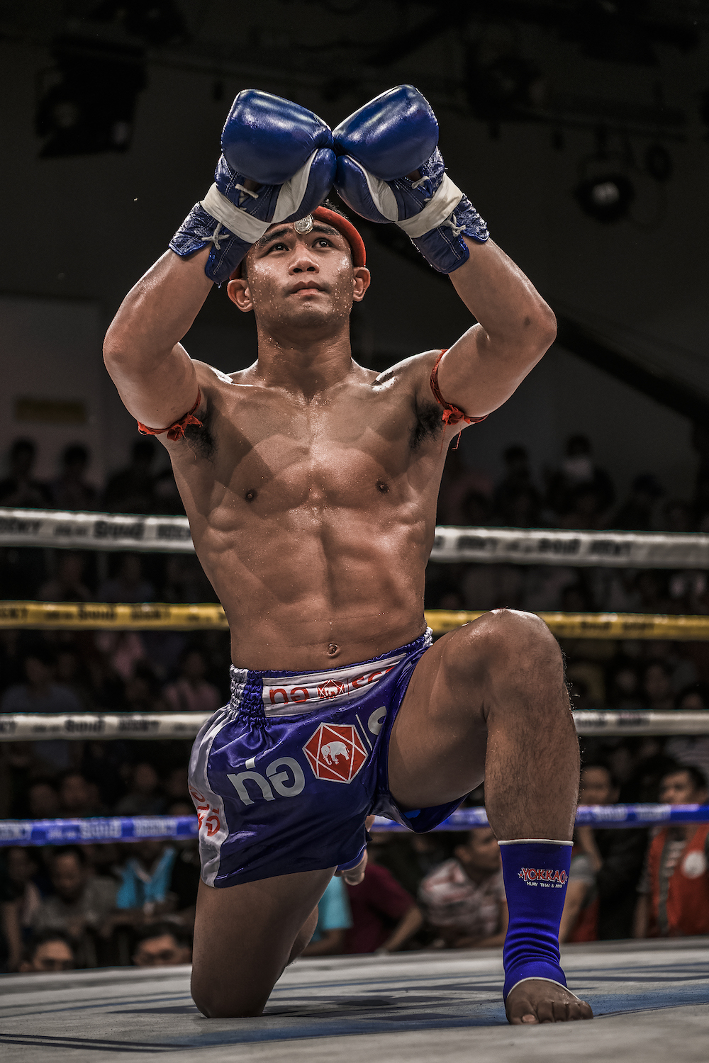 Manachai performing the Ram Muay